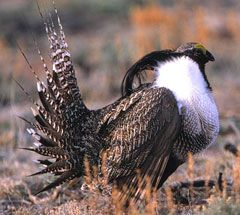 Gunnison Grouse, Centrocercus minimus